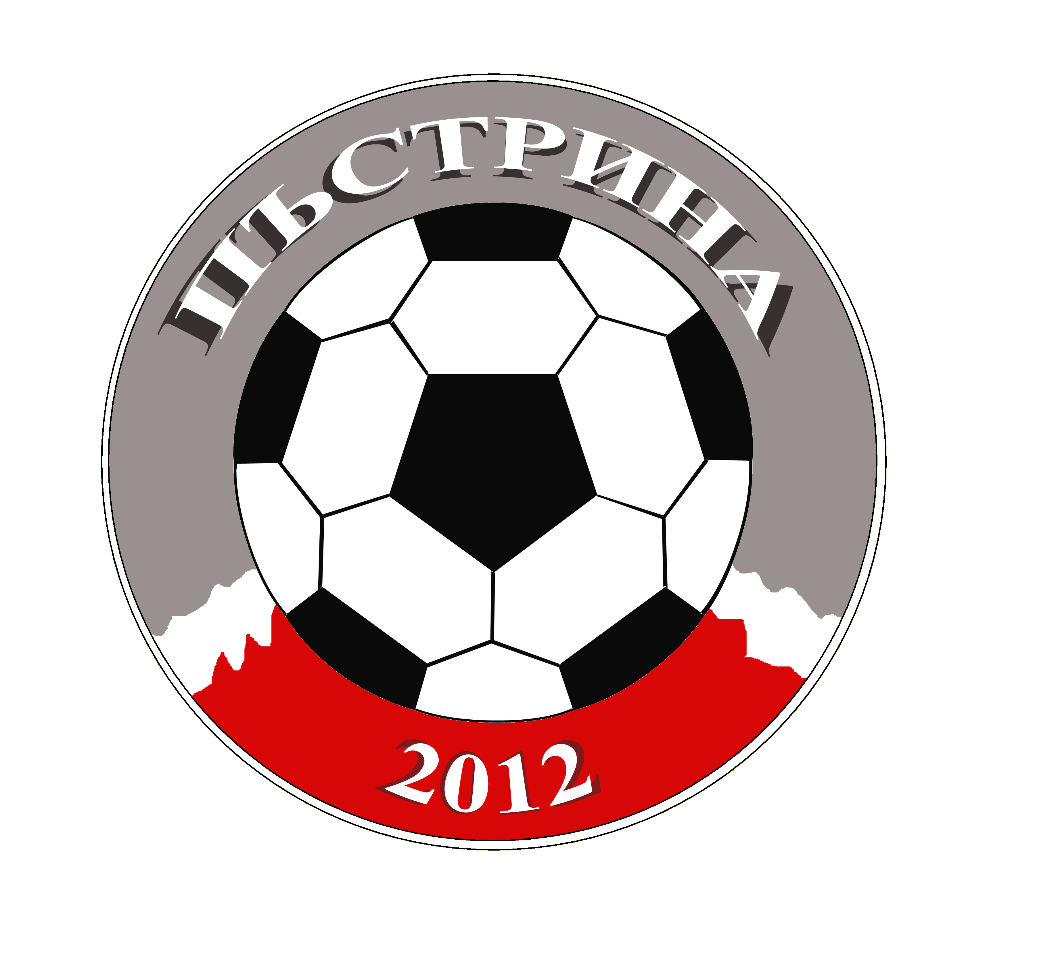 Pastrina 2012